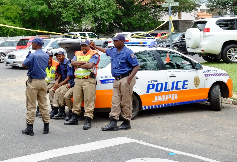 JMPD (Johannesburg Metropolitan Police Department) officers in Houghton, Johannesburg, South Africa